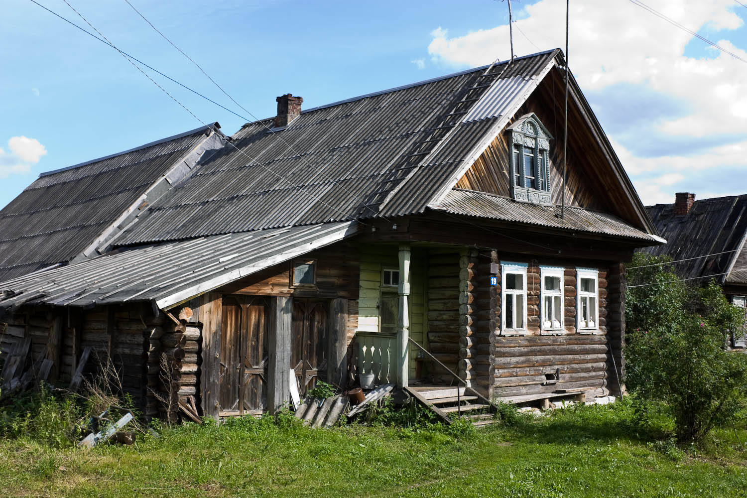 House in village Kosolapovo, Gorodetsky District, Nizhny Novgorod Oblast.